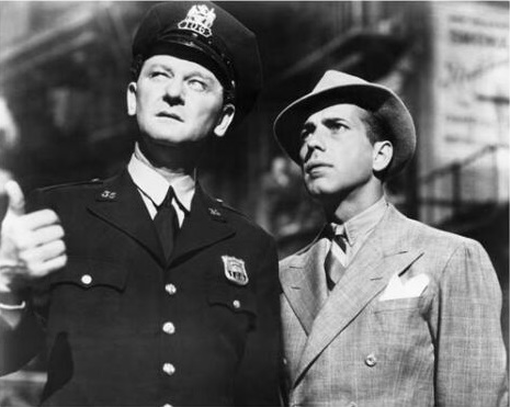 James Burke and Humphrey Bogart in American crime drama film Dead End (1937). See also film still. No copyright notice.